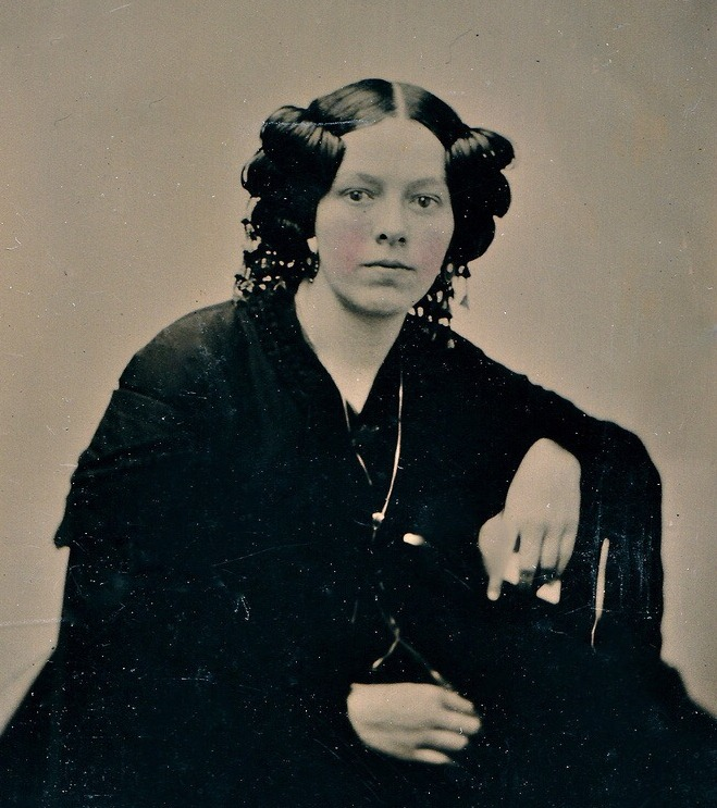 Anne, or Annie as she was called, was the second daughter and third child of Confederate General Robert E. Lee and his wife, Mary Anna Custis Lee and she was the only child of the seven Lee children to die before her father.